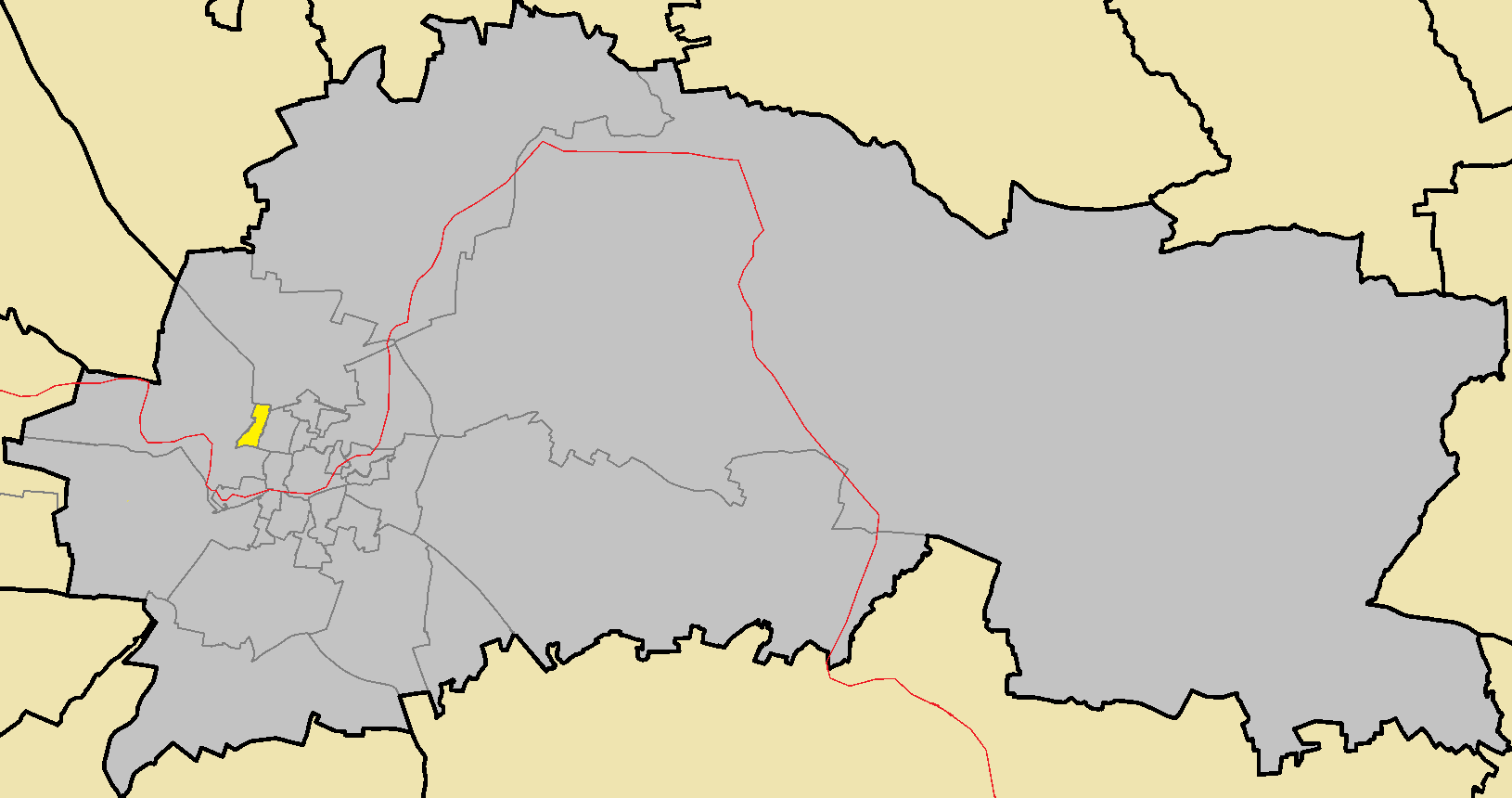 Machmout Pasa in Nicosia Municipality (de jure).